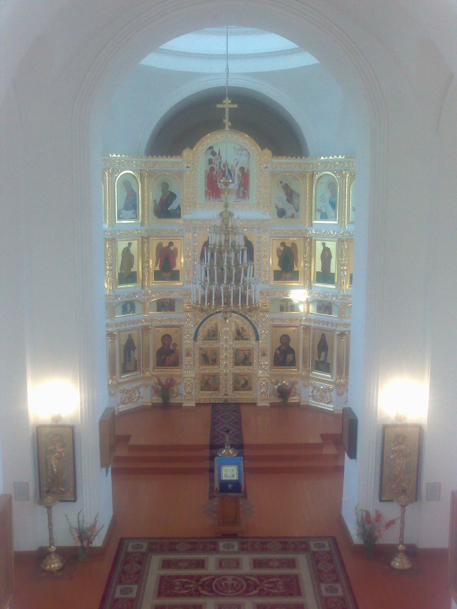 The iconoclasis of the Curch of Smolensk icon of Our Lady